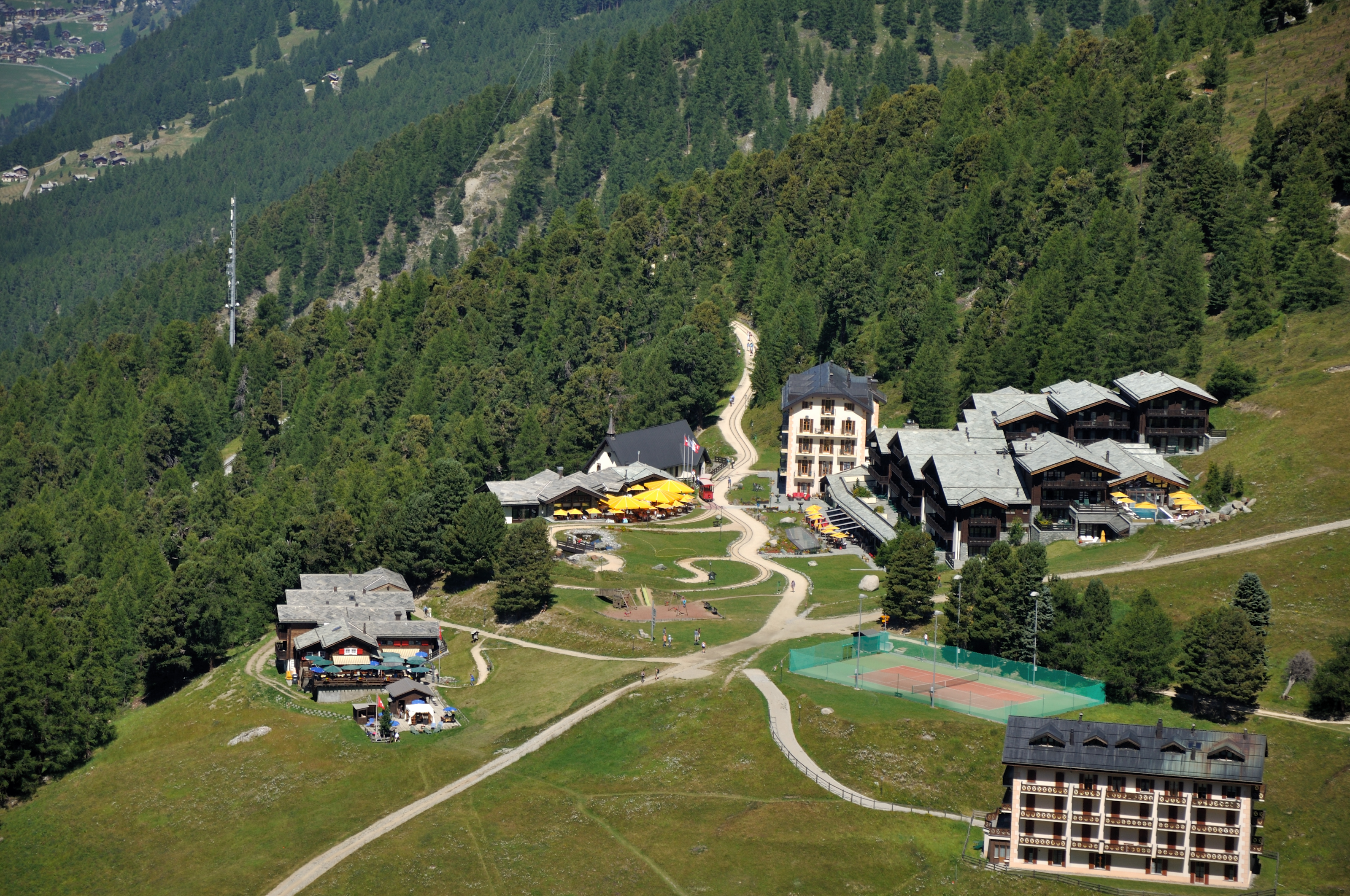 Switzerland, Valais, views on Riffelalp.